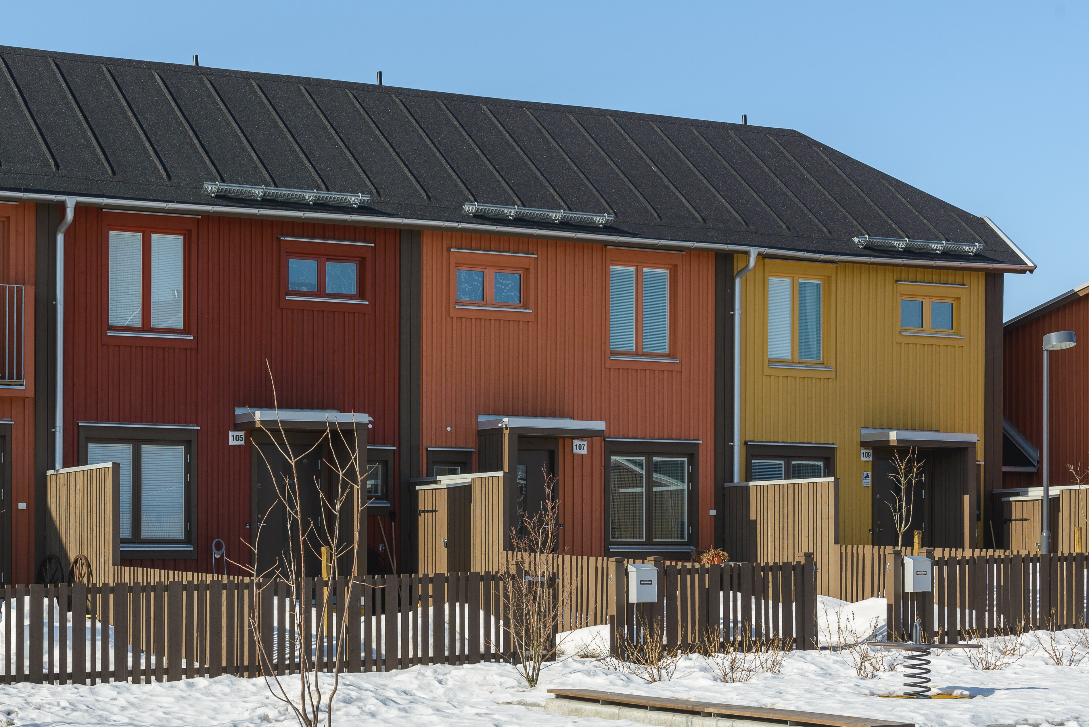 Kvarteret Randers is a terraced houses area in Kista, in northwestern Stockholm. The area consists of 71 terraced houses built in 1977-1979. The area was renovated in 2012.